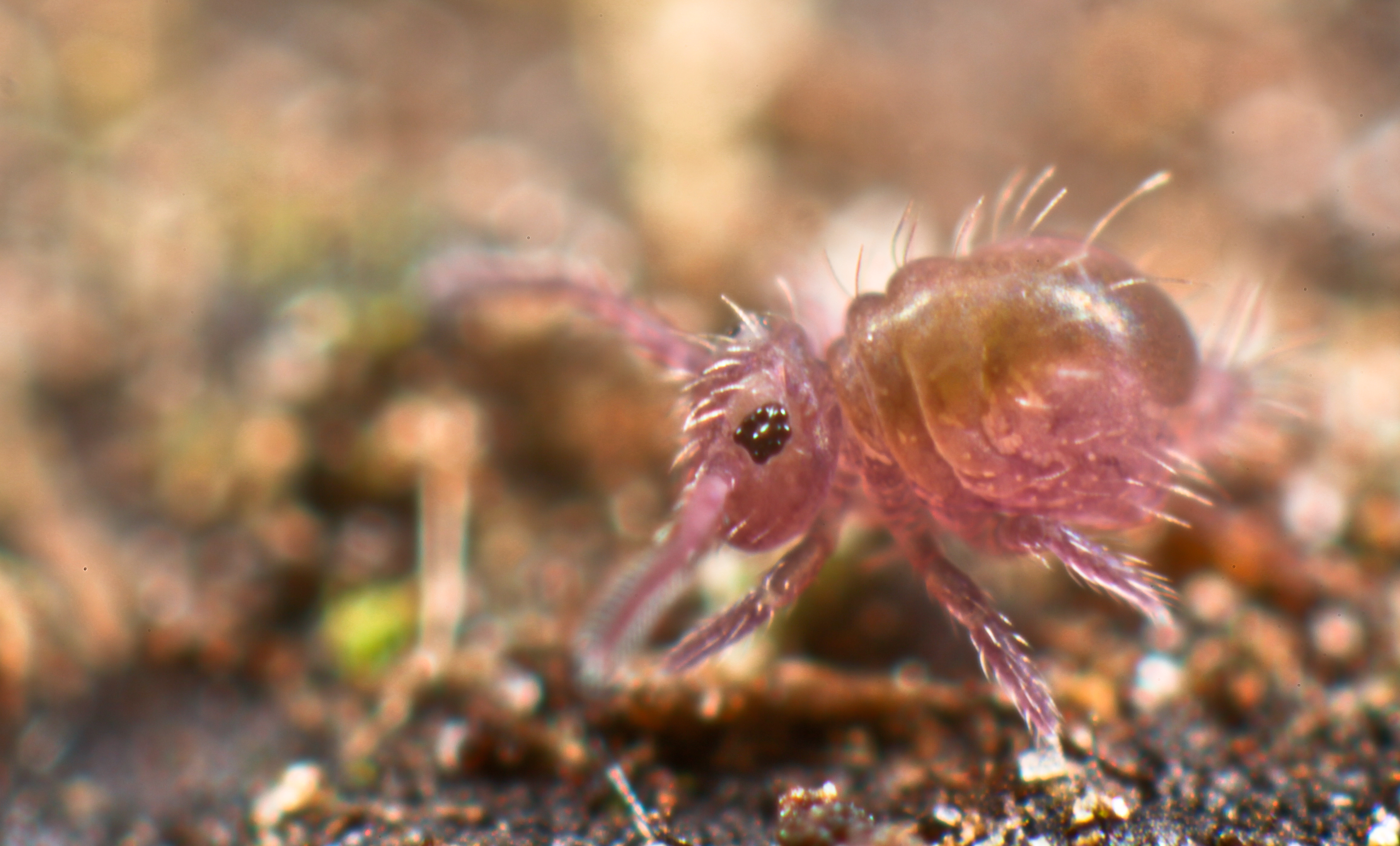 Allacma fusca juvenile from East Pennard, England, United Kingdom.